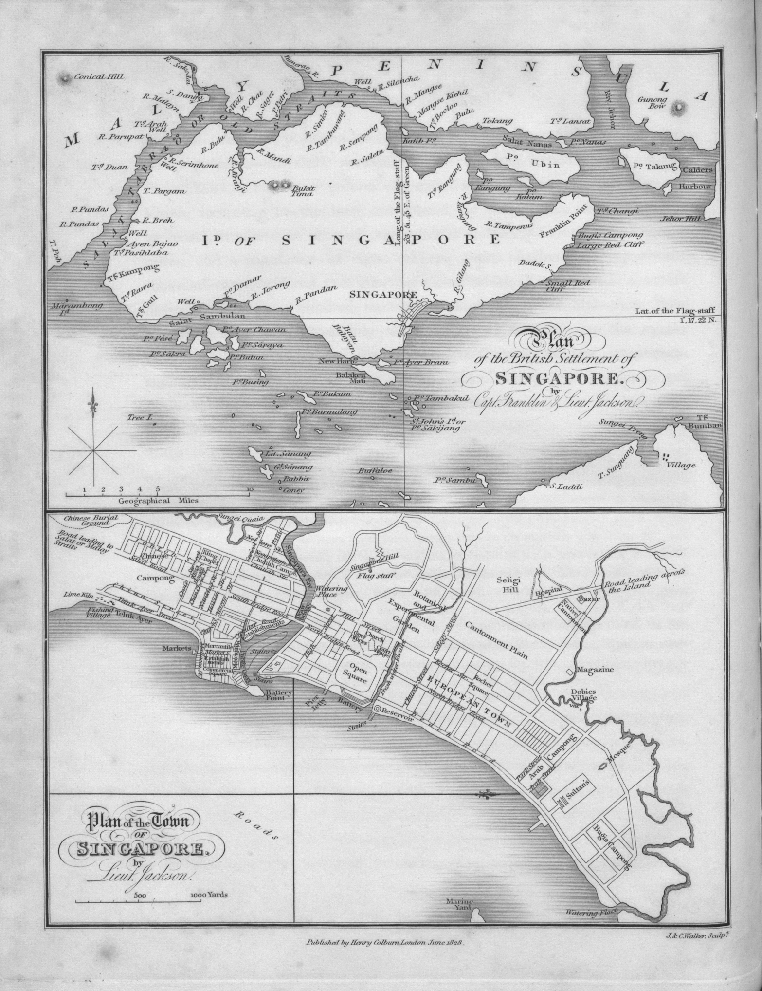 "Plan of the town of Singapore" and "Plan of the British settlement of Singapore" published 1828 in "Journal of an embassy from the Governor-General of India to the courts of Siam and Cochin-China" by John Crawfurd.